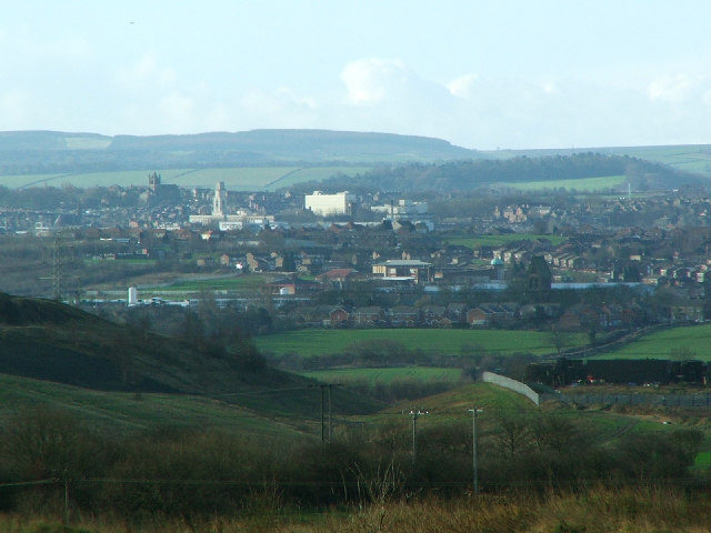 A view of Barnsley, South Yorkshire, England taken from Havercroft